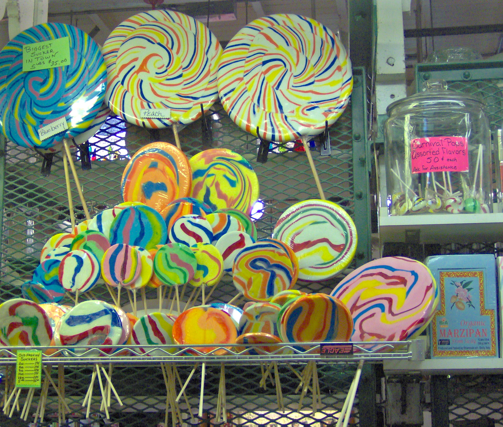 Ginormous lollipops and marzipan, Reading Terminal Market, Philadelphia